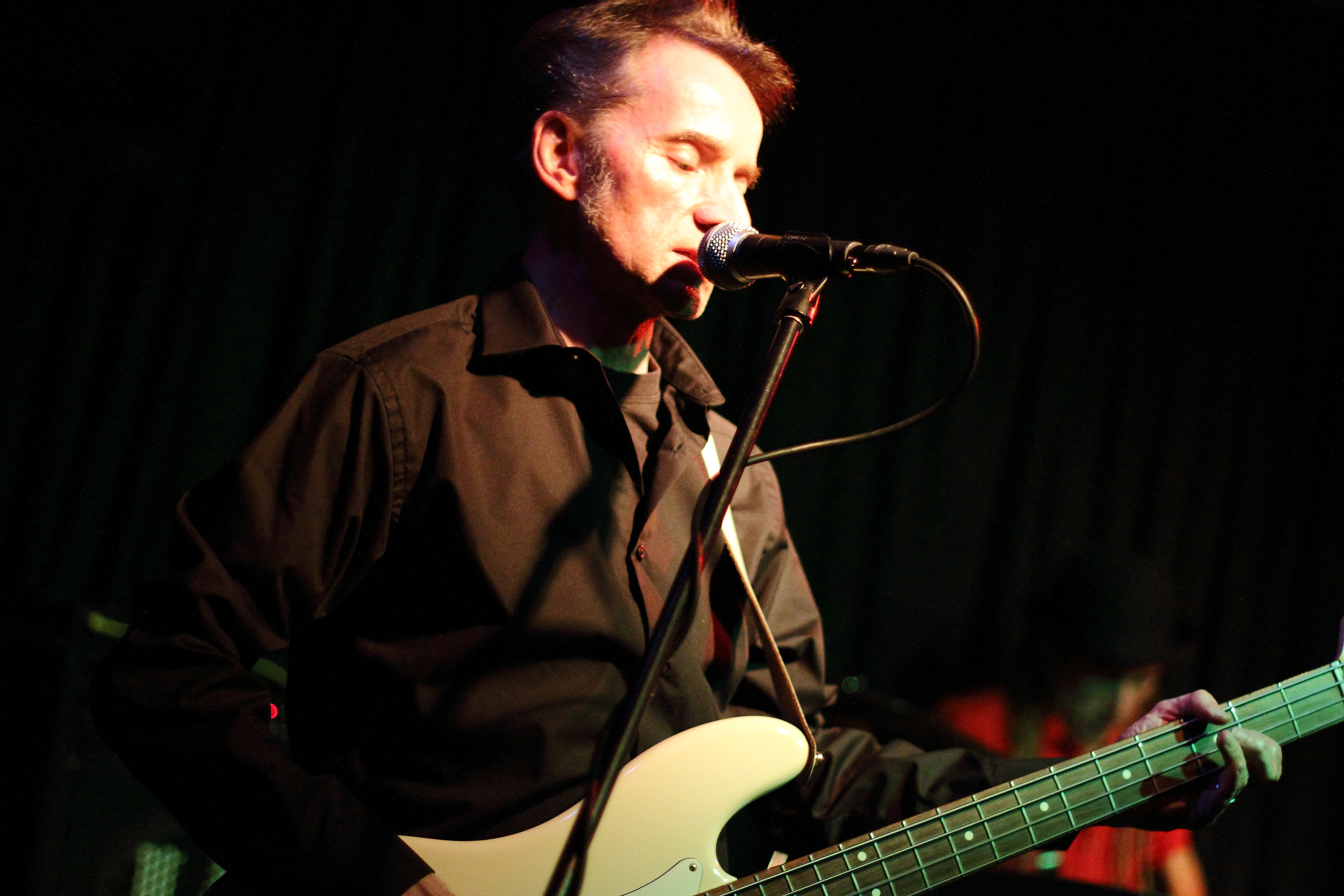 Andy Warren with The Monochrome Set at Club W71, 2016.